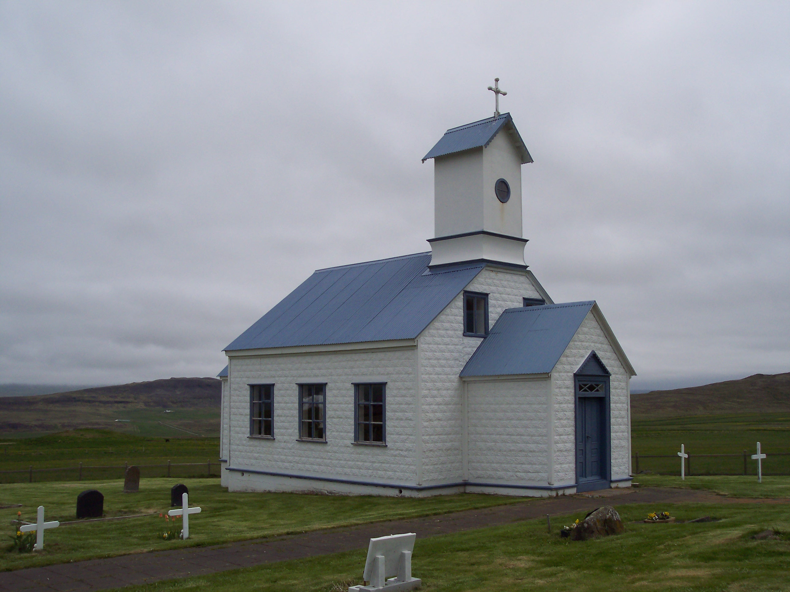 The church at Breiðabólstaður, Húnaþing vestra, Iceland